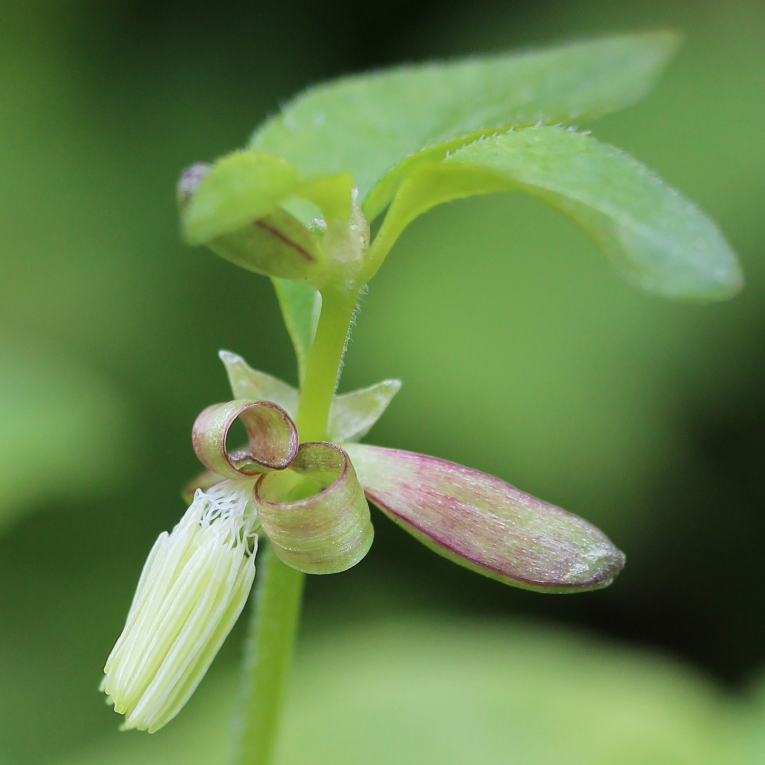 Flower of Theligonum japonicum in north ridge of Mount Ibuki, Maibara, Japan.